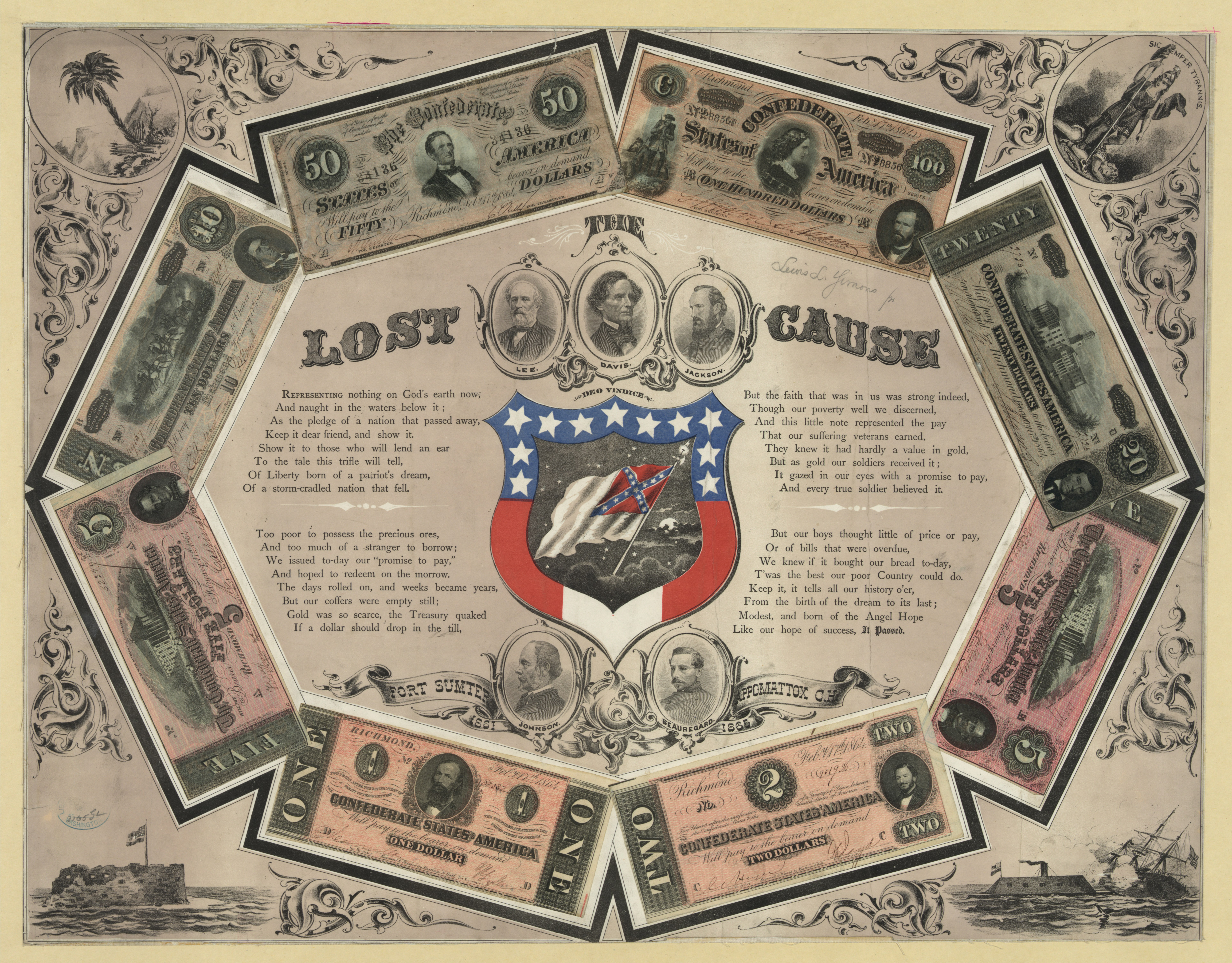 Title: The lost cause Physical description: 1 print. Notes: Associated name on shelflist card: Keating.; This record contains unverified data from PGA shelflist card.